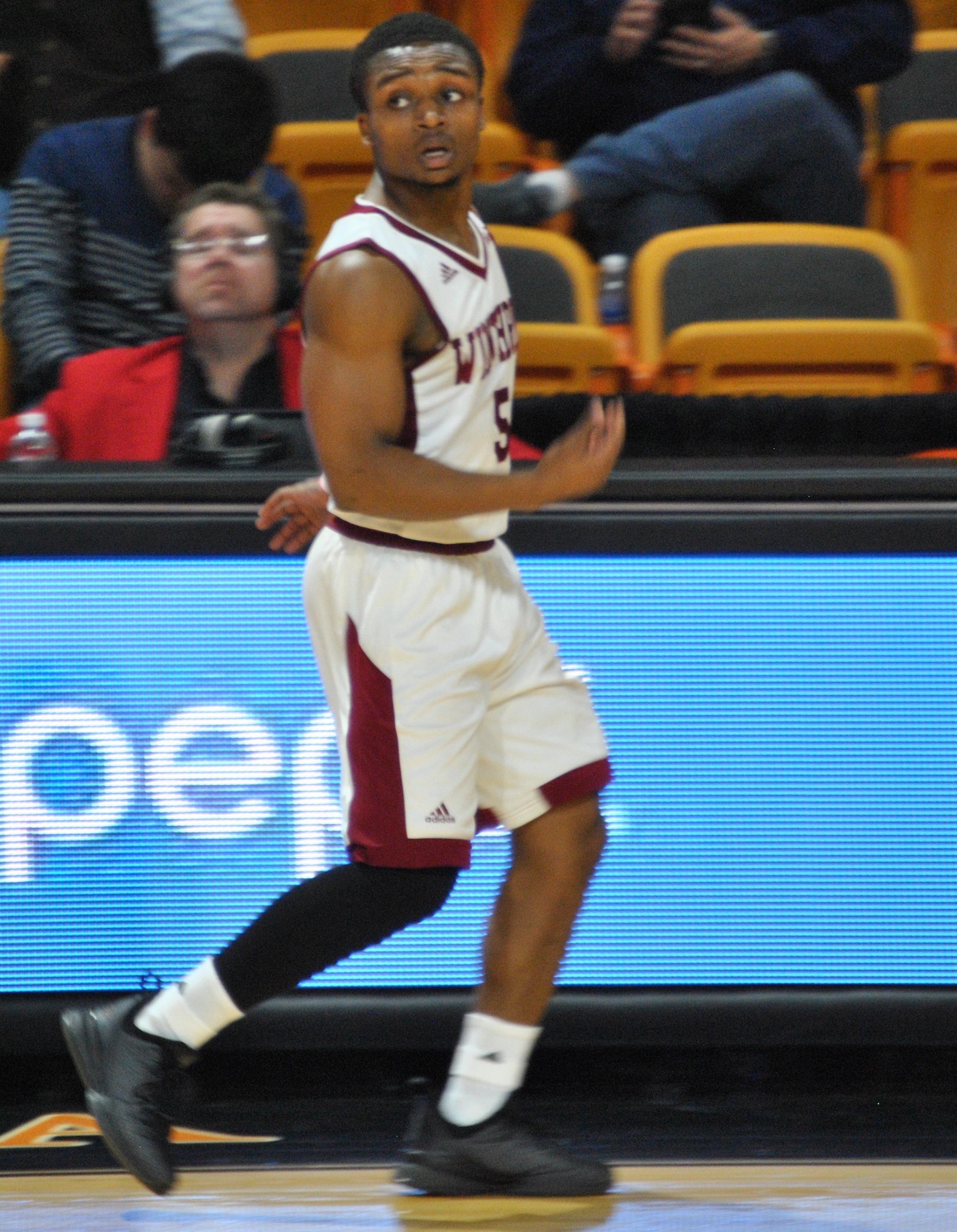 Game 6 of the 2016 Big South Basketball Tournament featured the Winthrop Eagles and the Presbyterian Blue Hose. The Eagles come out on top by a score of 67-57.